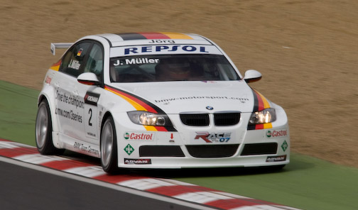 Jörg Müller (BMW Team Germany) at the 2008 WTCC Brands Hatch race.